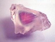 Picture of unpolished sunstone by John Bailey